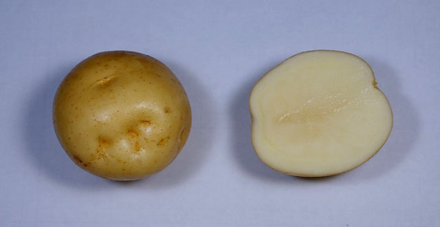 A potato tuber. cultivar:Irish Cobbler (Danshaku-imo, in Japanese). Photo by Fk.